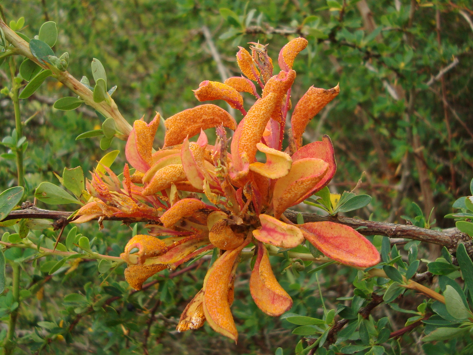 The rust fungus Aecidium magellanicum Berkeley growing on the bush Berberis microphylla. Photographed in Villa O’Higgins, Aisén Region, Chile.